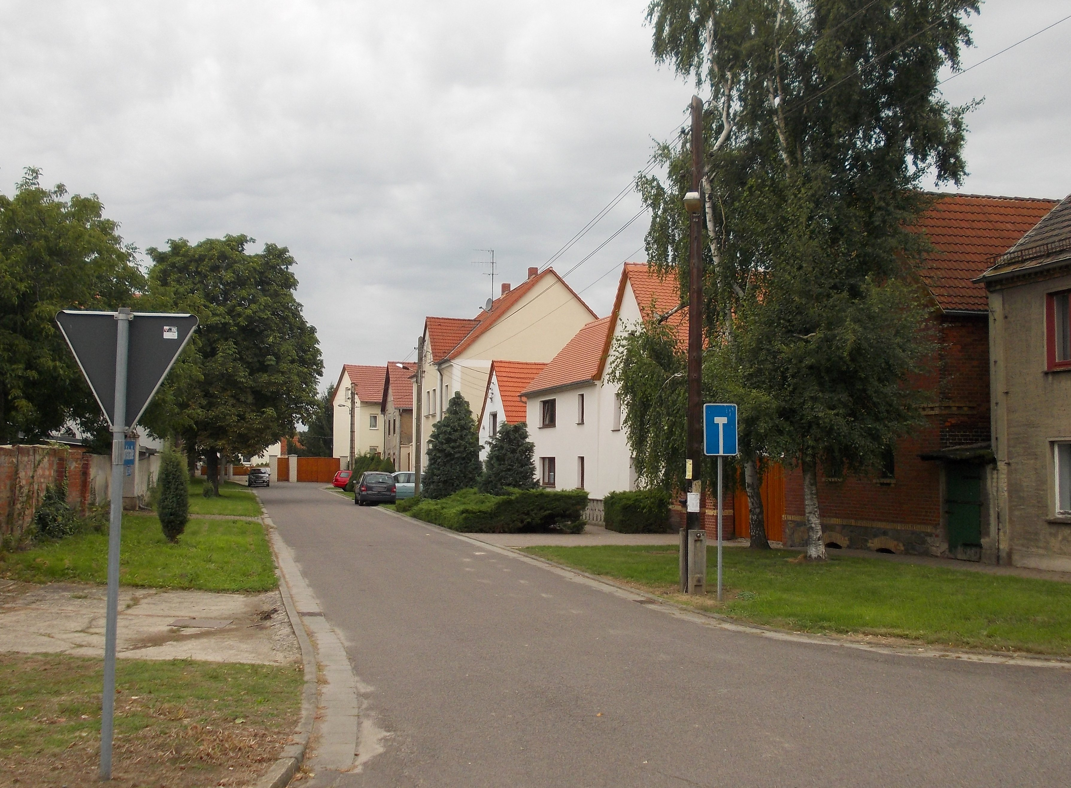 Street in Mutschlena (Krostitz, Nordsachsen district, Saxony)